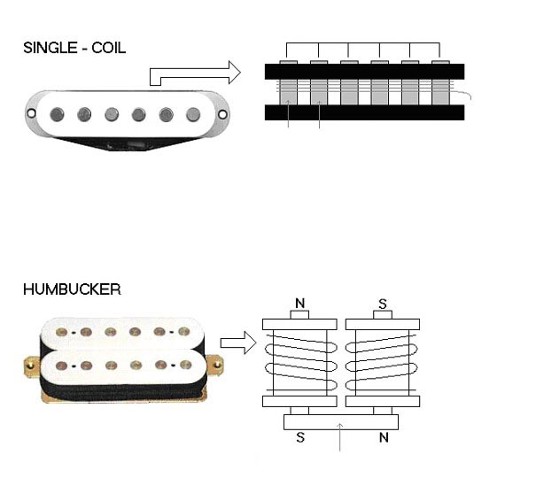 Snímače na elektrofonické kytaře (version without text)-Please ignore wrong N and S notice at top of the humbuckercoils, they should be switched in place